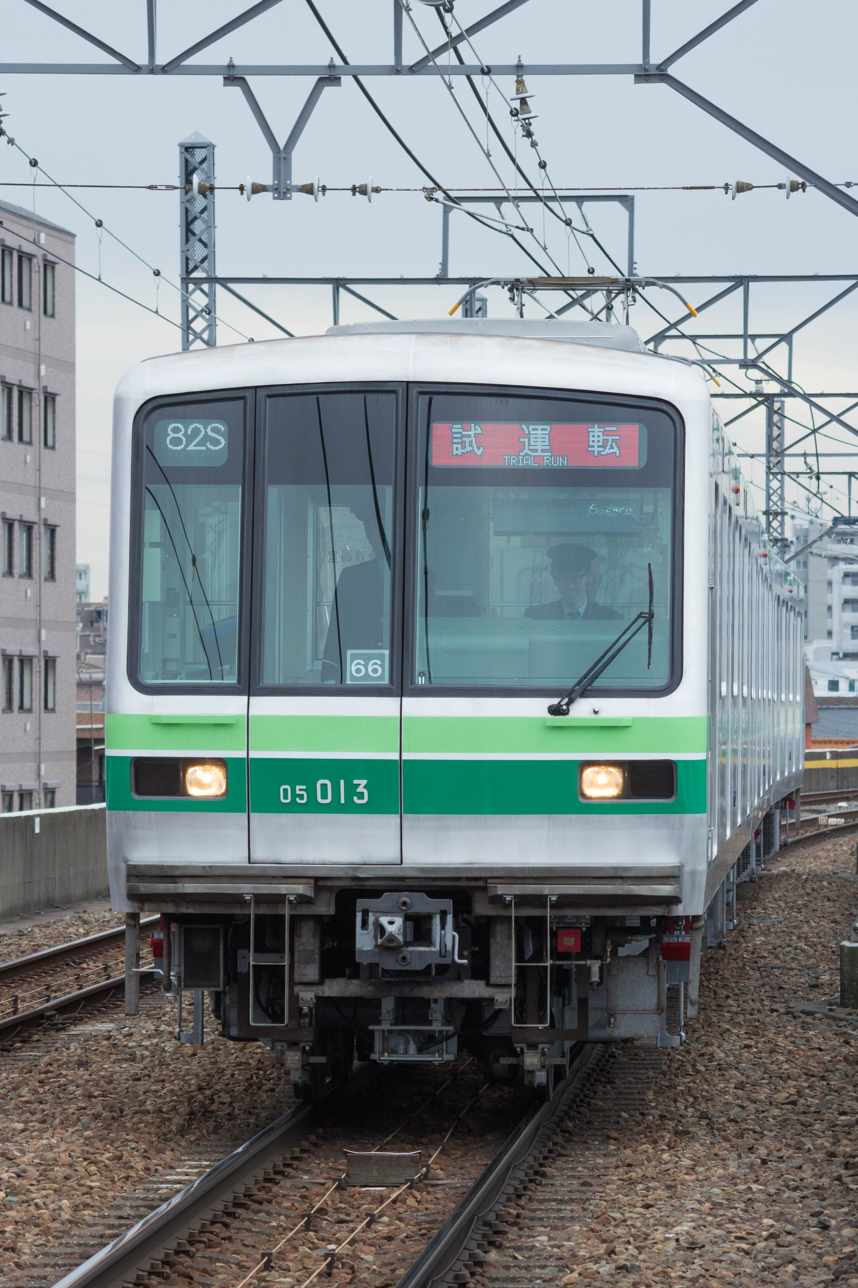 A reformed 3-car Tokyo Metro Chiyoda Line 05 series EMU set undergoing test running